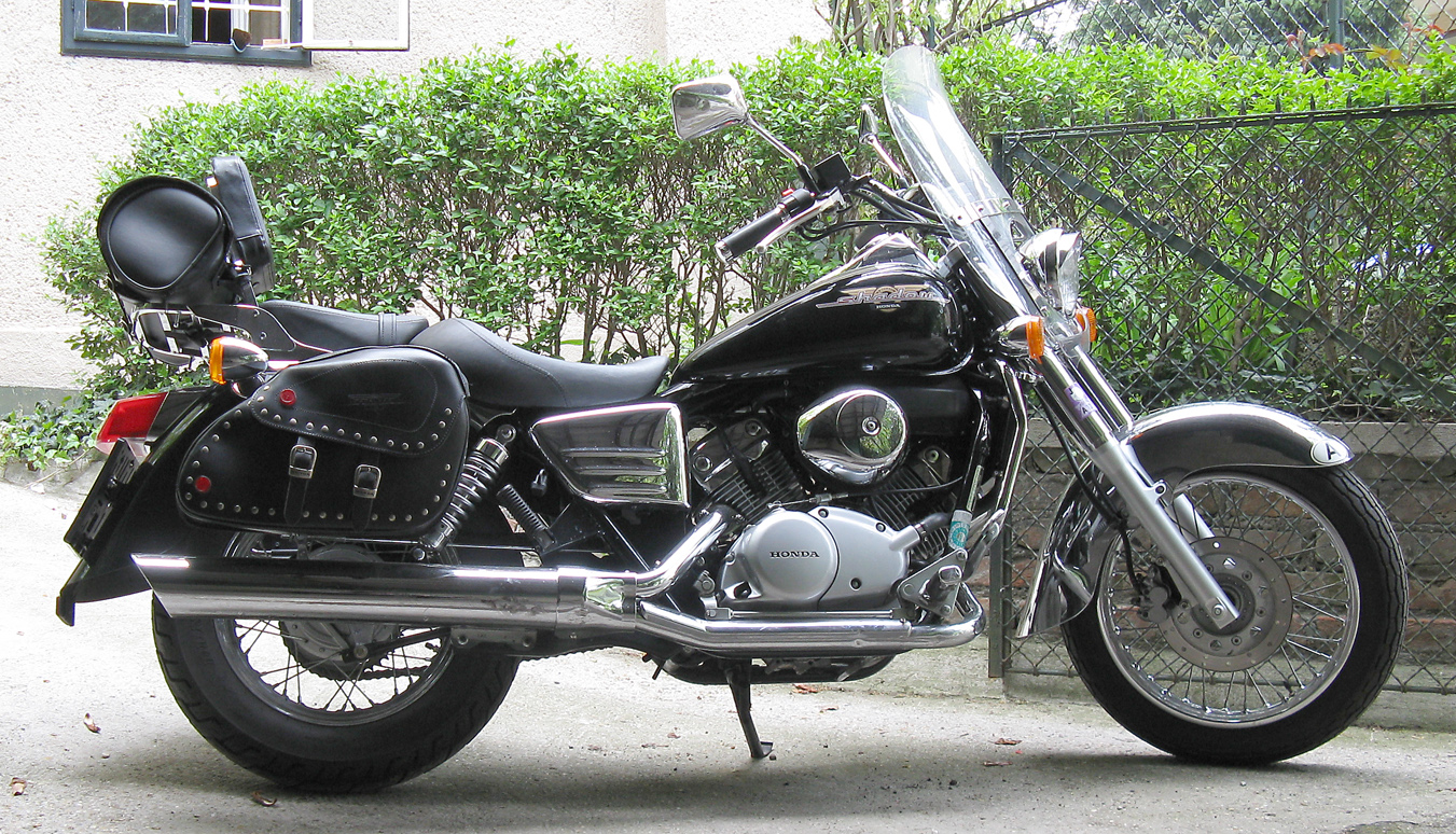 Honda Shadow VT 125 C1 with original Honda Accessoires